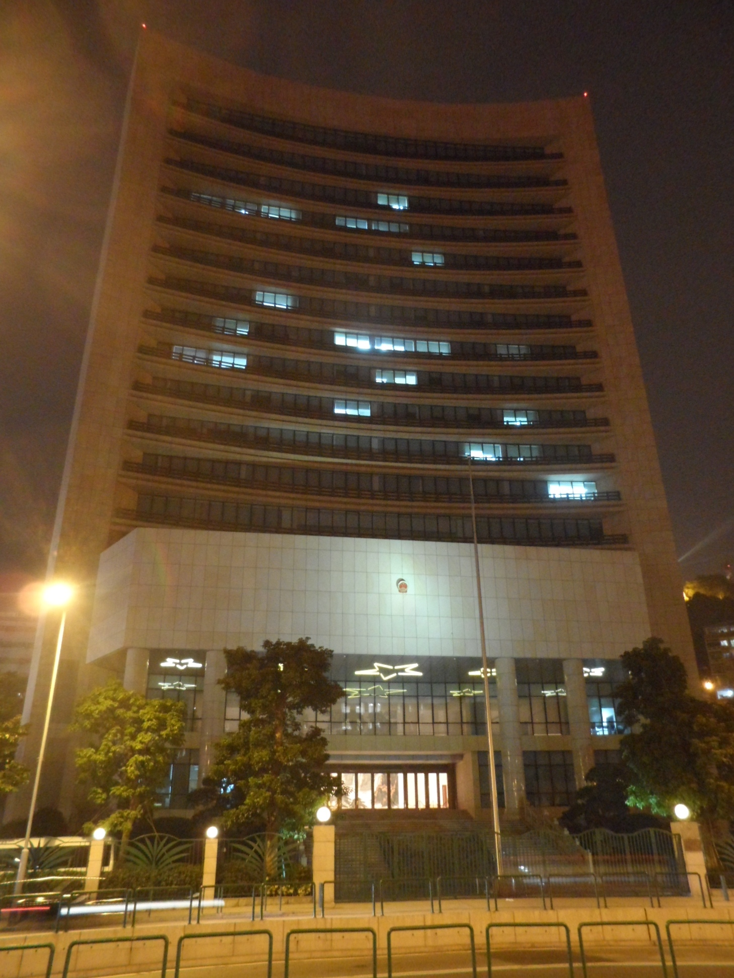 Liaison Office of the Central People's Government in the Macao SAR, Freguesia da Sé, Macau, China